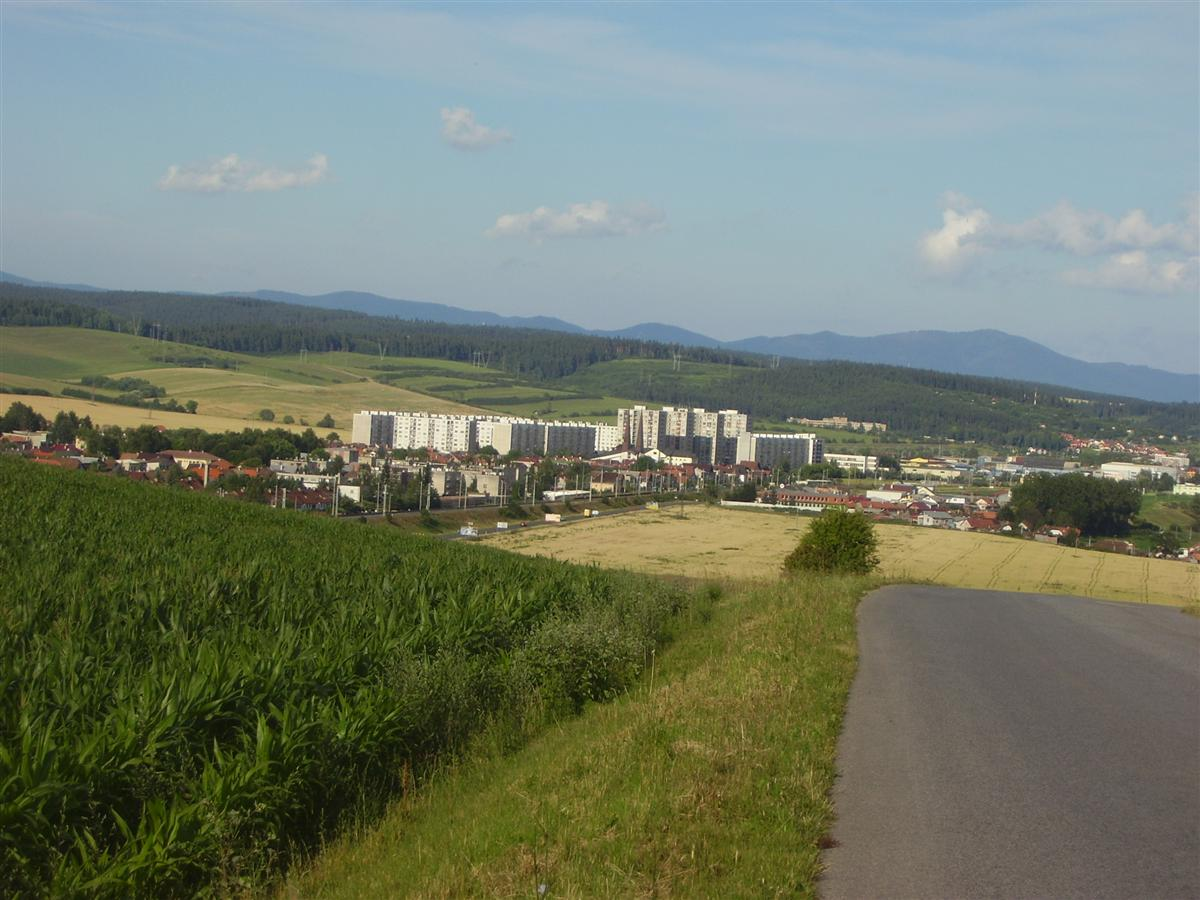 View at Smižany from Čingov